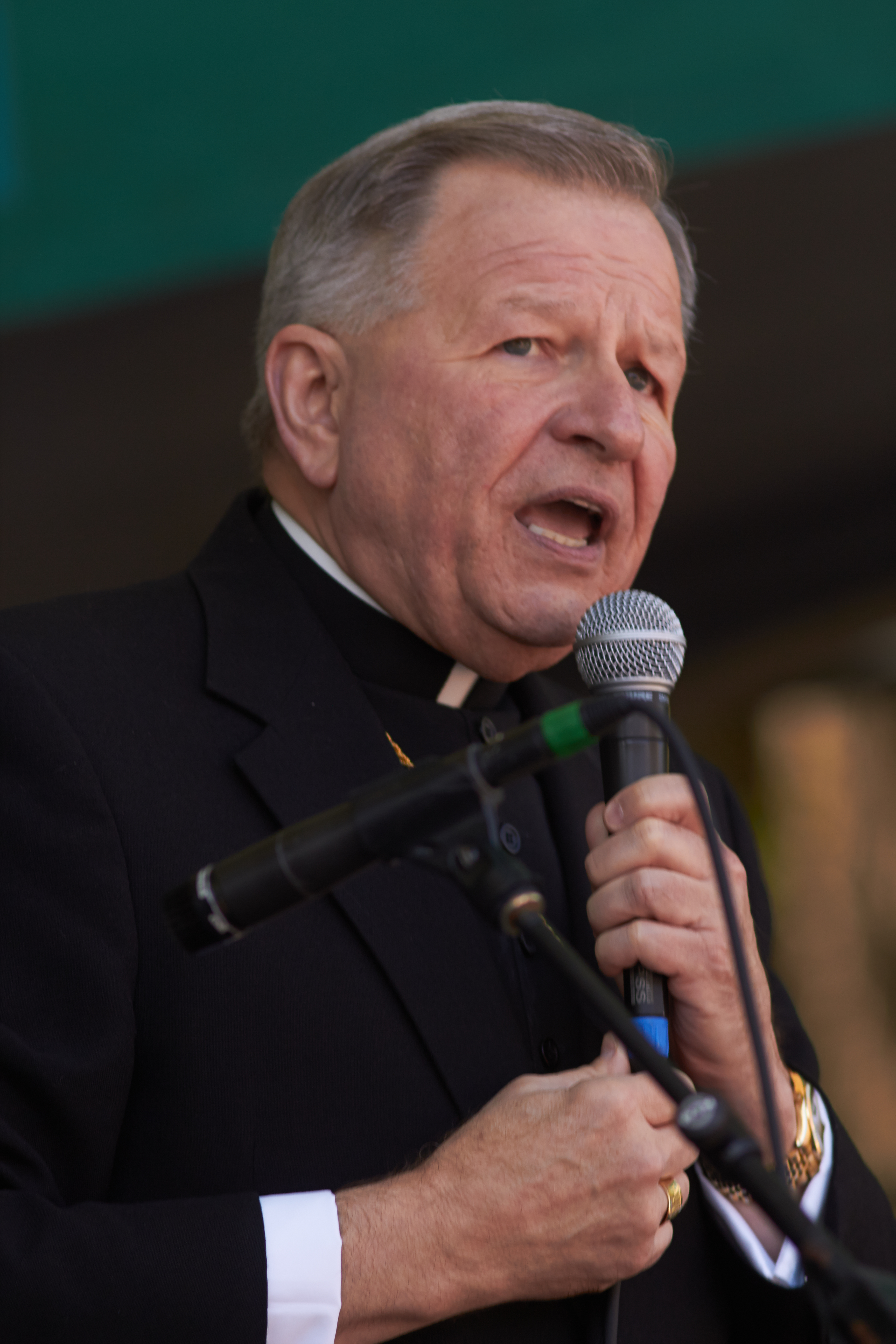 French Quarter Festival, New Orleans. Archbishop of New Orleans Gregory Michael Aymond at opening ceremony in Jackson Square.